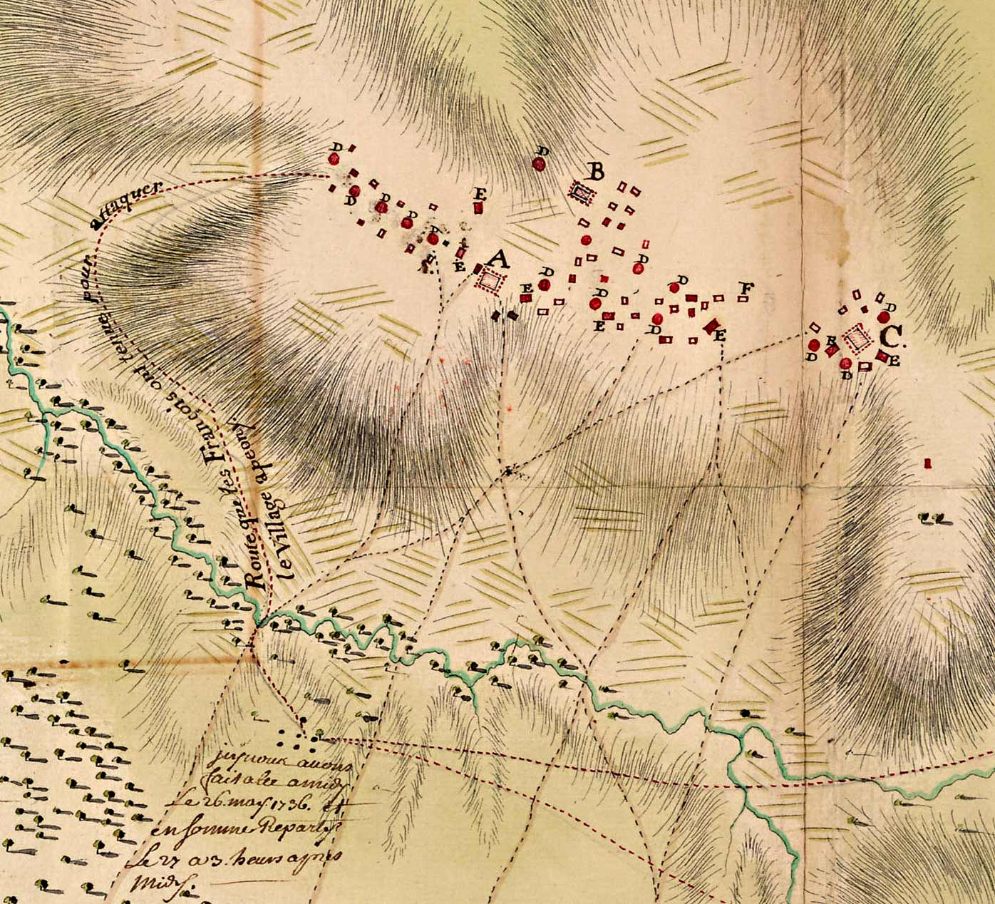 Excerpt from 'Plan a L'Estime ou Scituation de Trois Villages Chicachas', by Ignace-François Broutin (28 June 1736). This remarkable map, made only a month after the event, depicts the French attack on the Chickasaw village of Ackia on the afternoon of 26 May 1736. Translation of the legend: A - Village of Ackia which was attacked. B - Fort Tchouka falaya. C - Fort Apeony where the English had a depot. D - Round fortified cabins. E - Rectangular fortified cabins. F - Fortified cabin (need translation). Centre des archives d'outre-mer (France), 04DFC 49C Front matter Conditions d'accès : Libre Conditions de reproduction : Libre Scale given in Toises, which are roughly equivalent to Fathoms, or 6 feet, or two meters